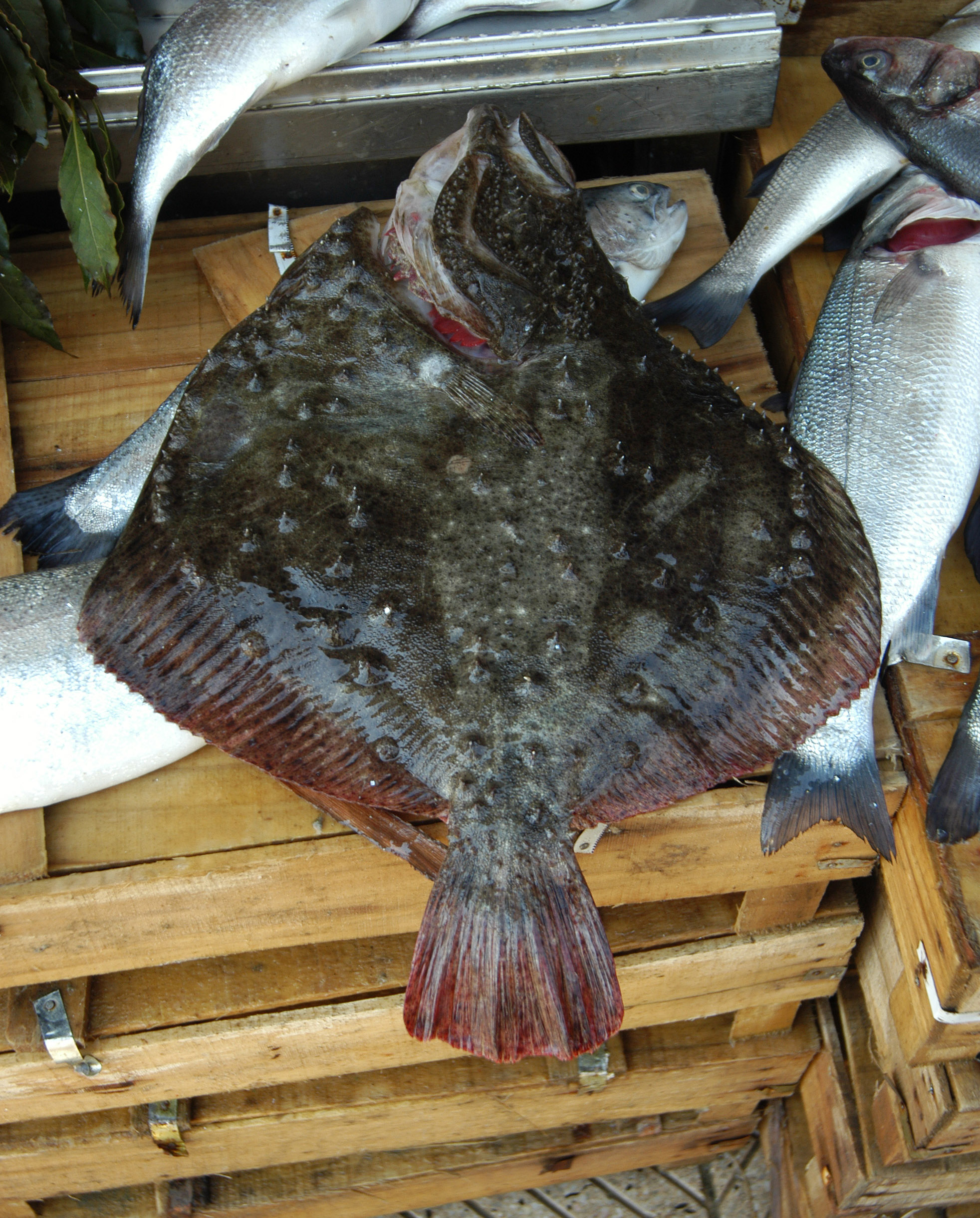 Psetta maeotica (upside), Samsun, Turkey